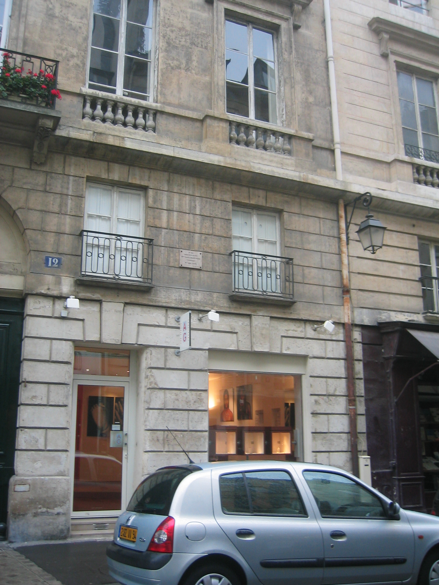 12, Rue de l'Odeon Paris, France (where Sylvia Beach's bookstore „Shakespeare & Company“ was located)